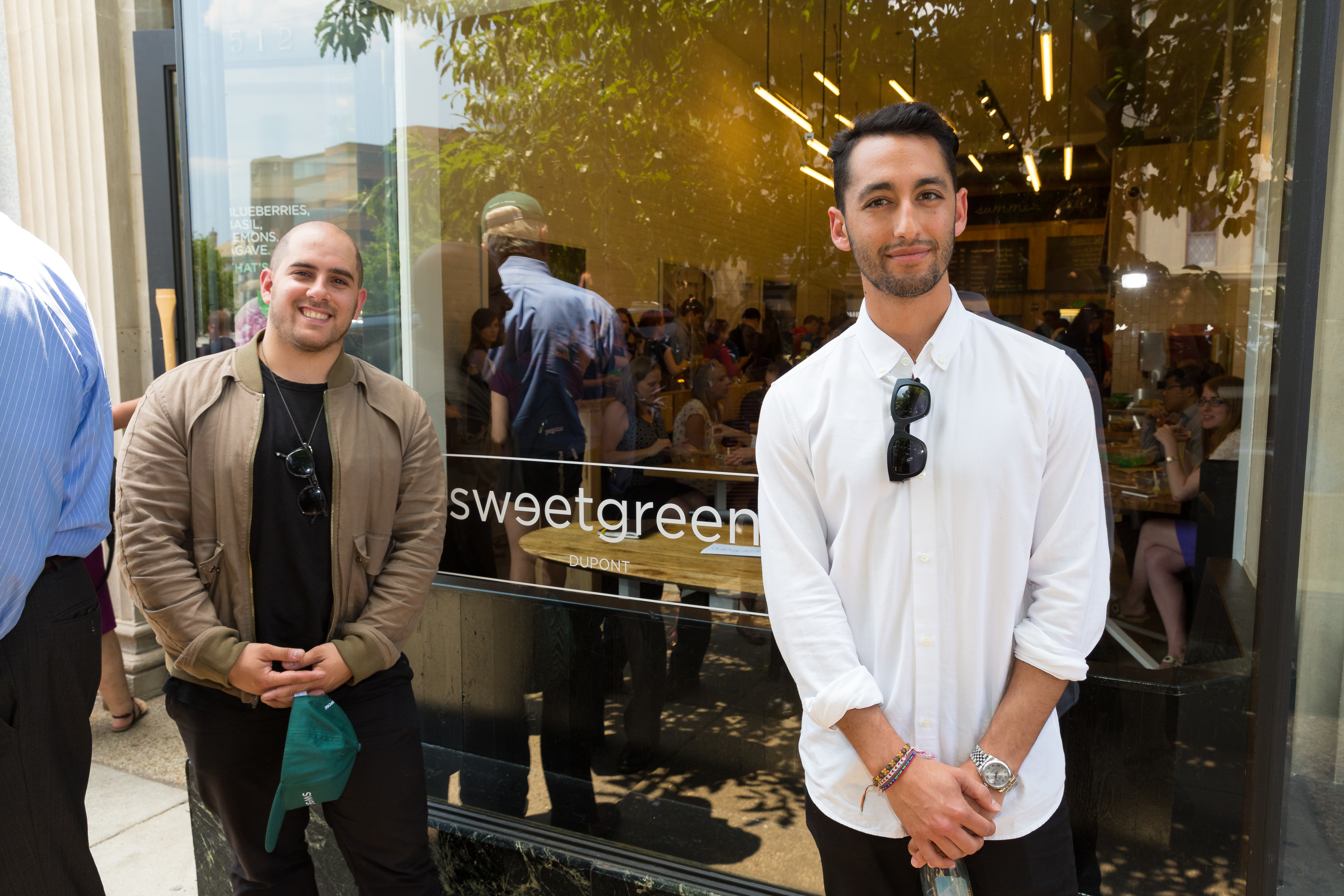 16th June 2014 - Washington, D.C. - U.S. Secretary of Labor Thomas E. Perez and Rep. George Miller meet with employees, and eat lunch with Sweetgreen co-founders Nic Jammet and Jonathan Neman at their Dupont Circle Sweetgreen restaurant. Nic Jammet and Jonathan Neman, co-founders, Sweetgreen Official Department of Labor Photograph*** This official Department of Labor photograph is being made available only for publication by news organizations and/or for personal use printing by the subject(s) of the photograph. The photograph may not be manipulated in any way and may not be used in commercial or political materials, advertisements, emails, products, and/or promotions that in any way suggest approval or endorsement of the Secretary, or the Department of Labor. Photo Credit: Department of Labor Shawn T Moore